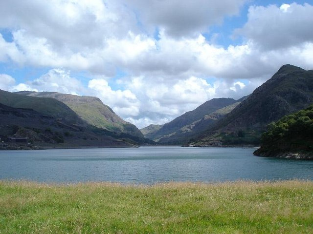 Llyn Peris. Looking up the valley from Llanberis over the lake